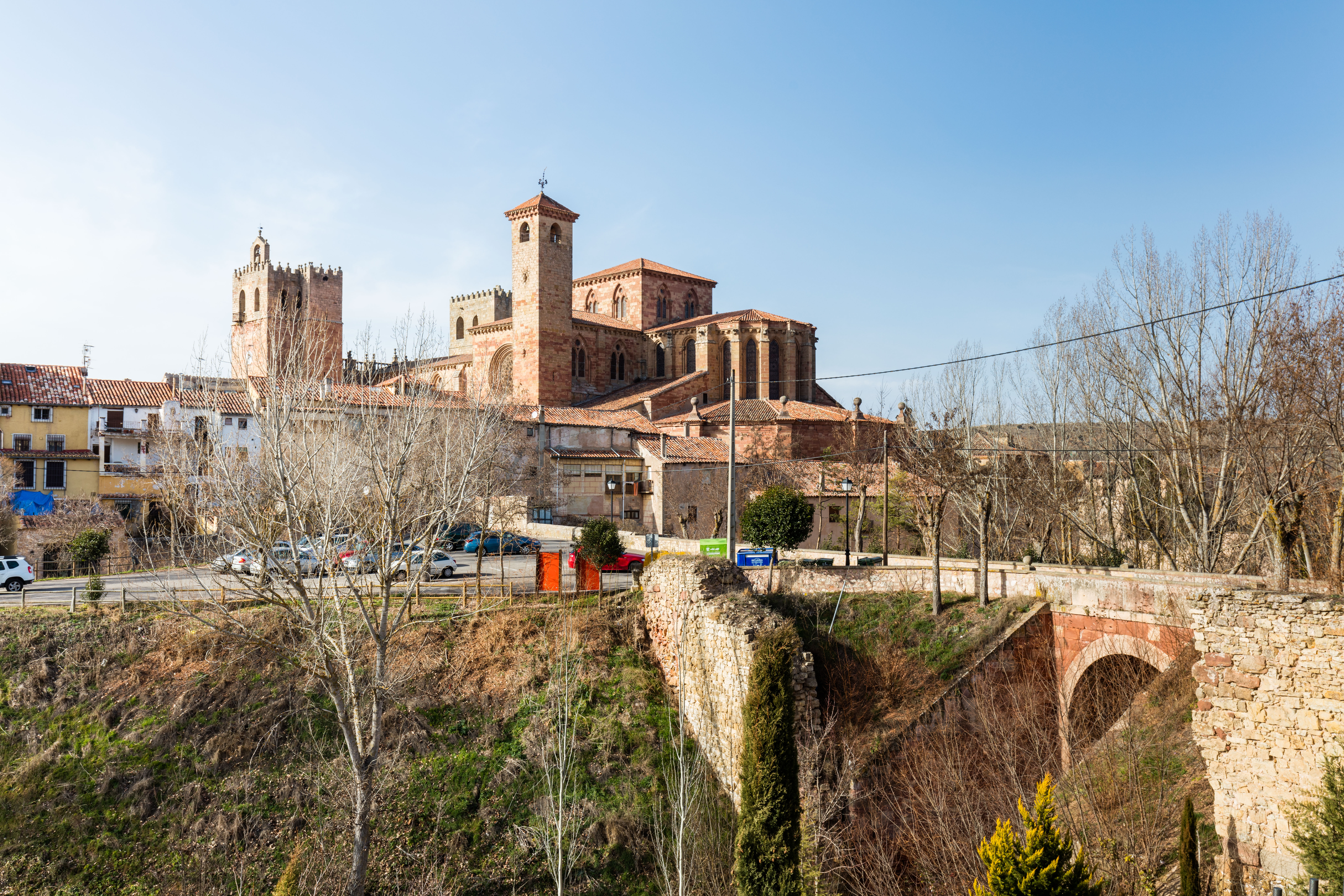 Cathedral of Santa María, Sigüenza, Spain